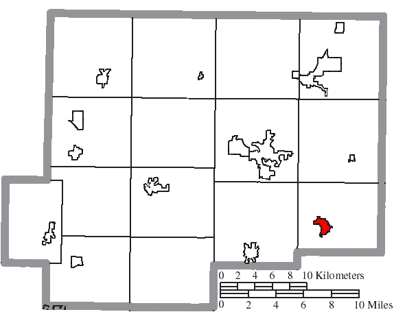 Map of the municipal and township boundaries of Putnam County, Ohio, United States, as of the 2000 census, with the location of the village of Pandora highlighted. Township borders are shown only in unincorporated areas in order to differentiate incorporated and unincorporated areas more clearly.